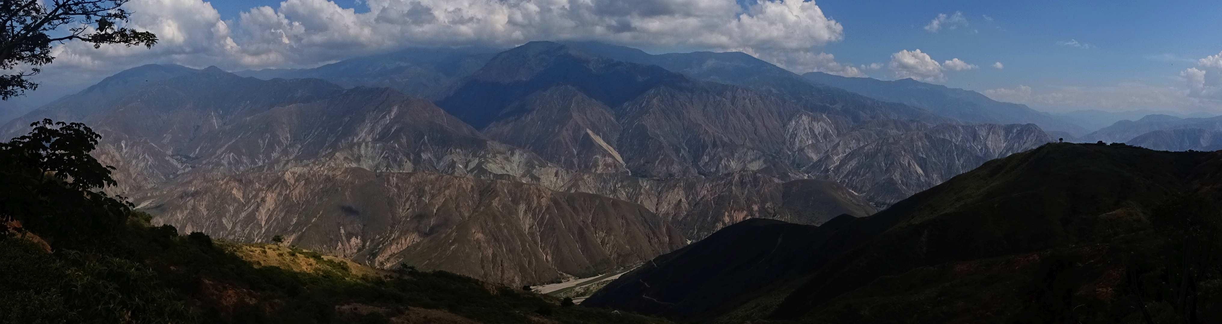 Panorama of the majestic Chicamocha Canyon, deeper than the Grand Canyon, in the department of Santander in the Eastern Ranges of the Colombian Andes.